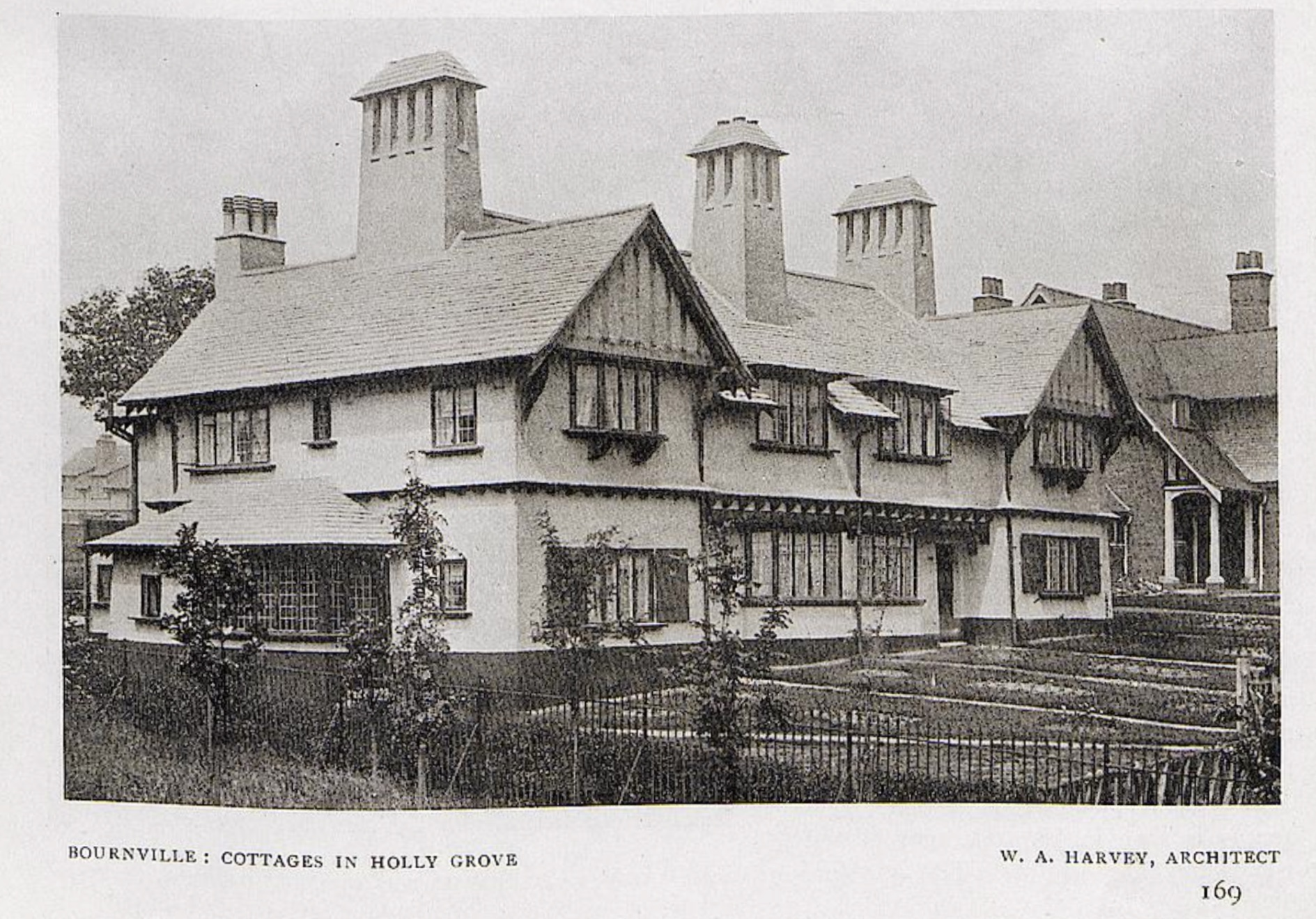 From The Studio, International Art Magazine. 1901